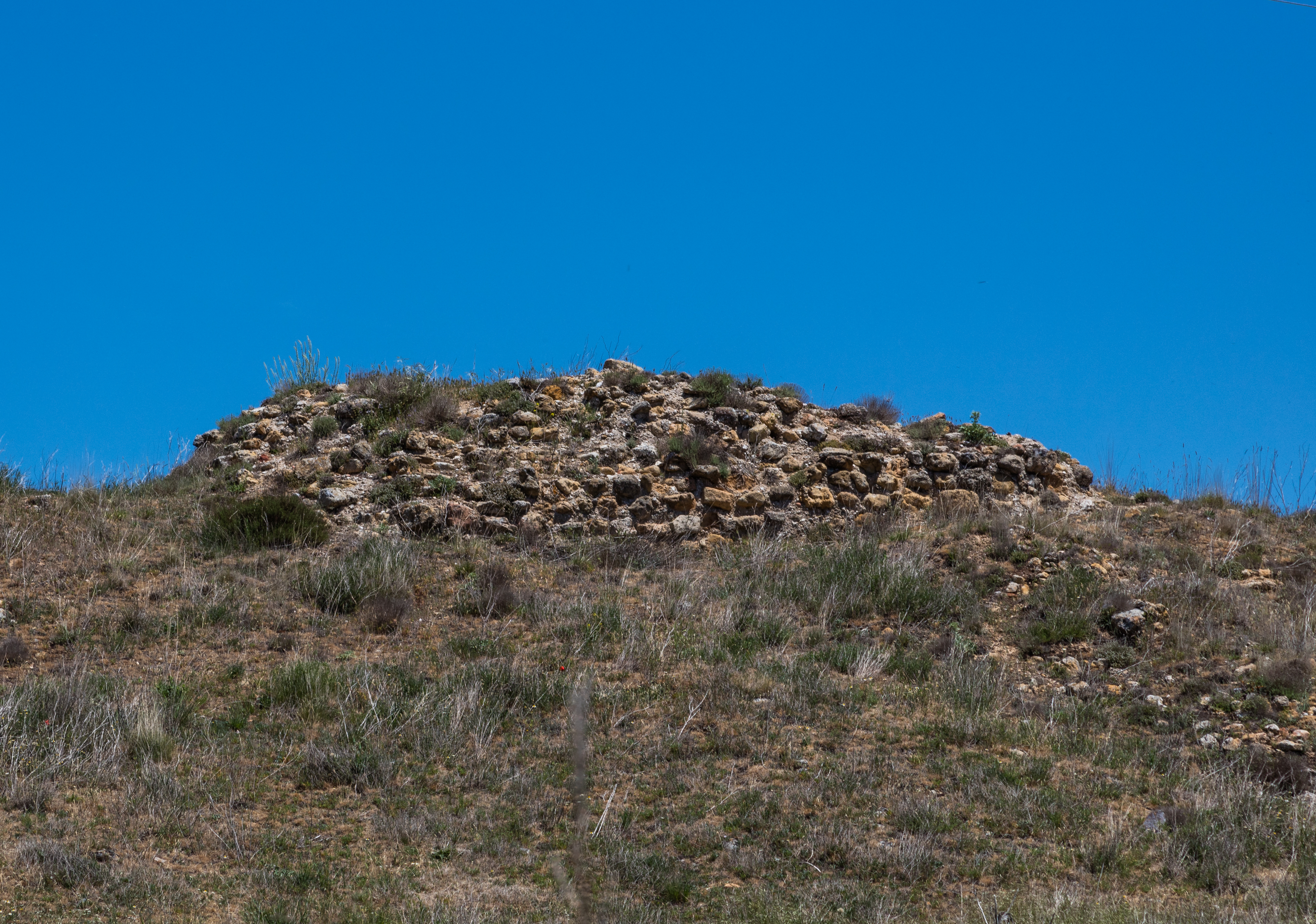 Tower of Castil de Tierra, Soria, Spain